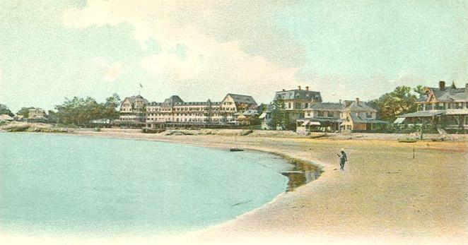 Whale Beach, Swampscott, MA; from a 1909 postcard.